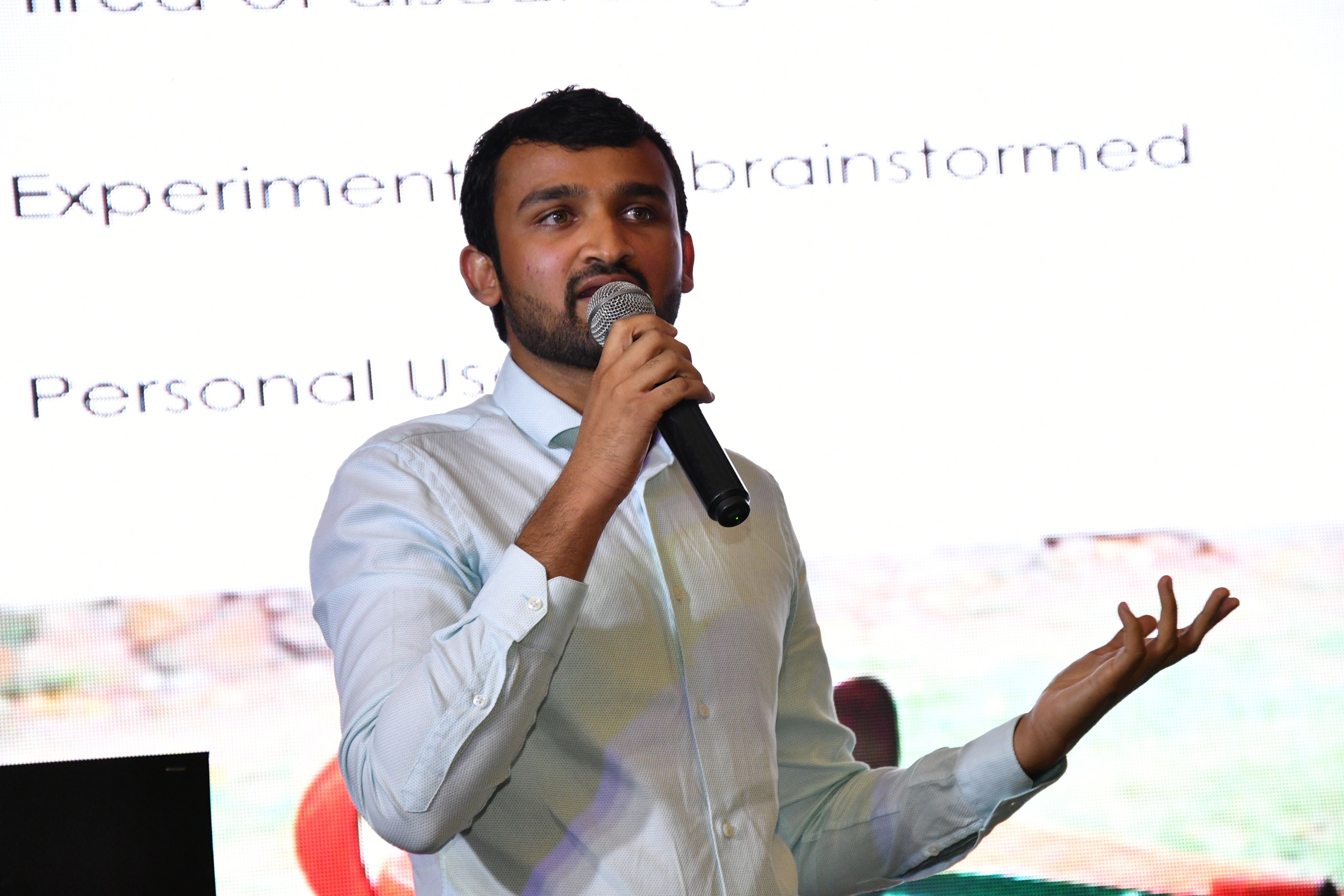 Keynote speaker at Patrika event Surat